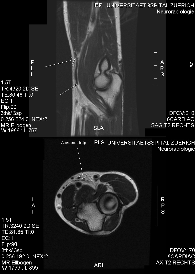 MRI. Complete tear of the distal biceps tendon surrounded by a hematoma. The aponeurosis musculi bicipitis is partially preserved.